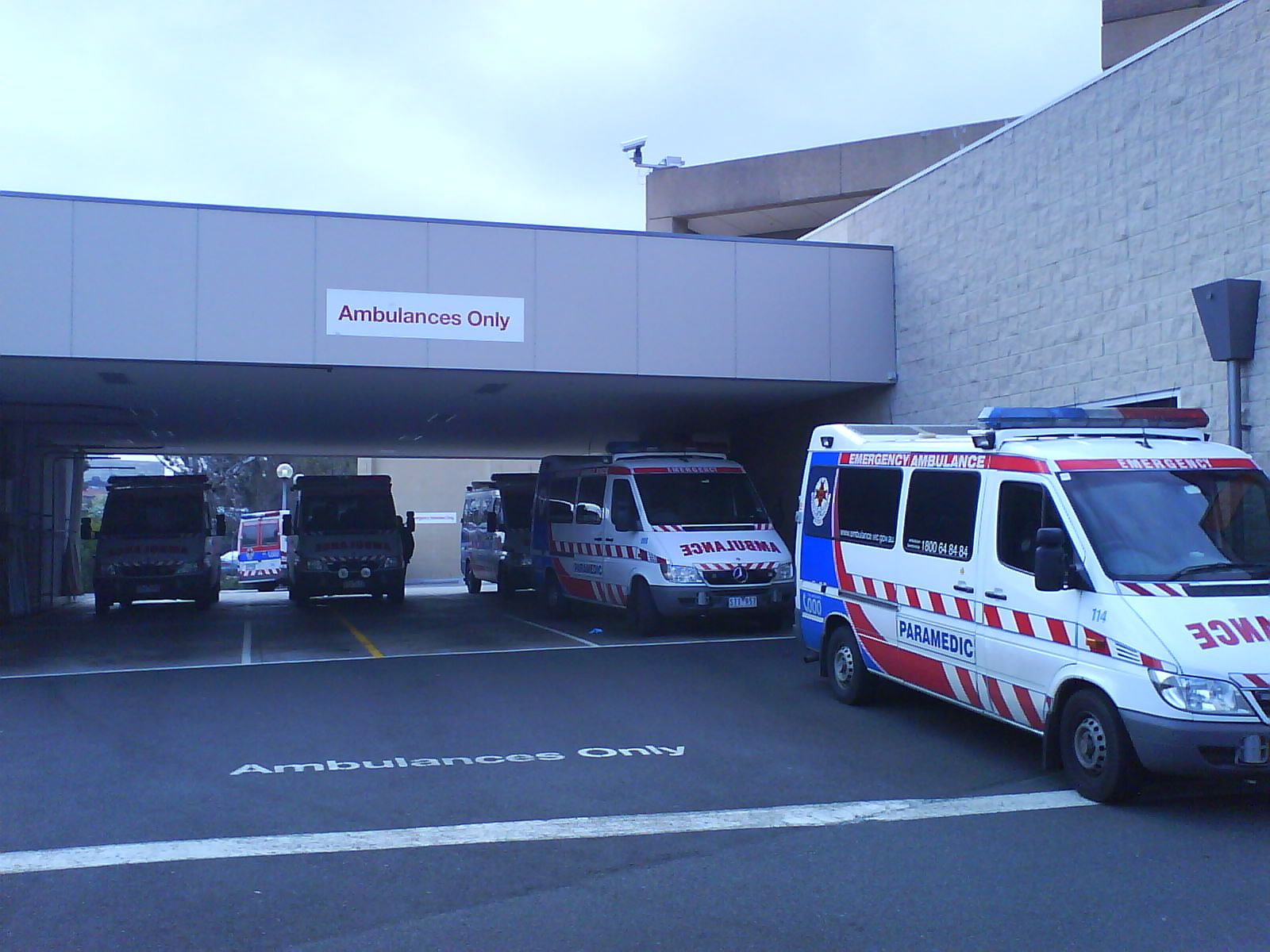 Ambulances waiting outside the emergency department of Monash Medical Centre, Clayton